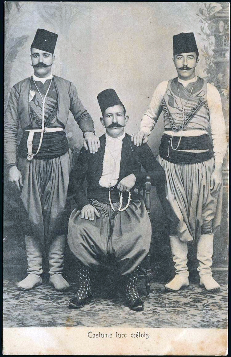 Cretan Muslims. Early b&w PPC (E.A. Cavaliero) unused